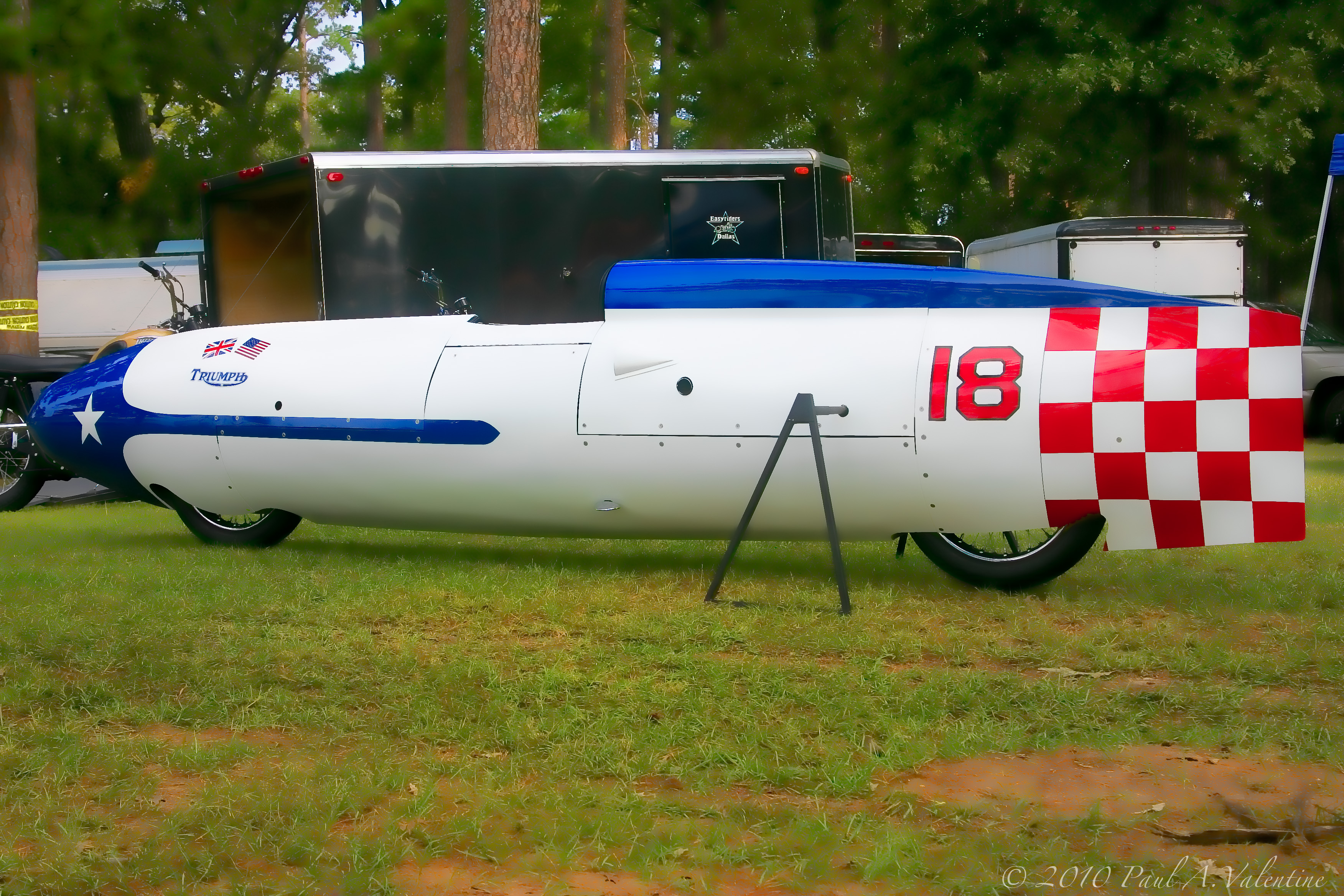 Taking Creative Liberties with a Motorcycle with Tremendous Historic Significance. This Motorcycle set a Land Speed Record at the Bonneville Salt Flats in 1956, and a result of that effort was that The Triumph Motorcycle Company in England named a 650cc model of their Motorcycles the "Bonneville"...Which is still in production today.